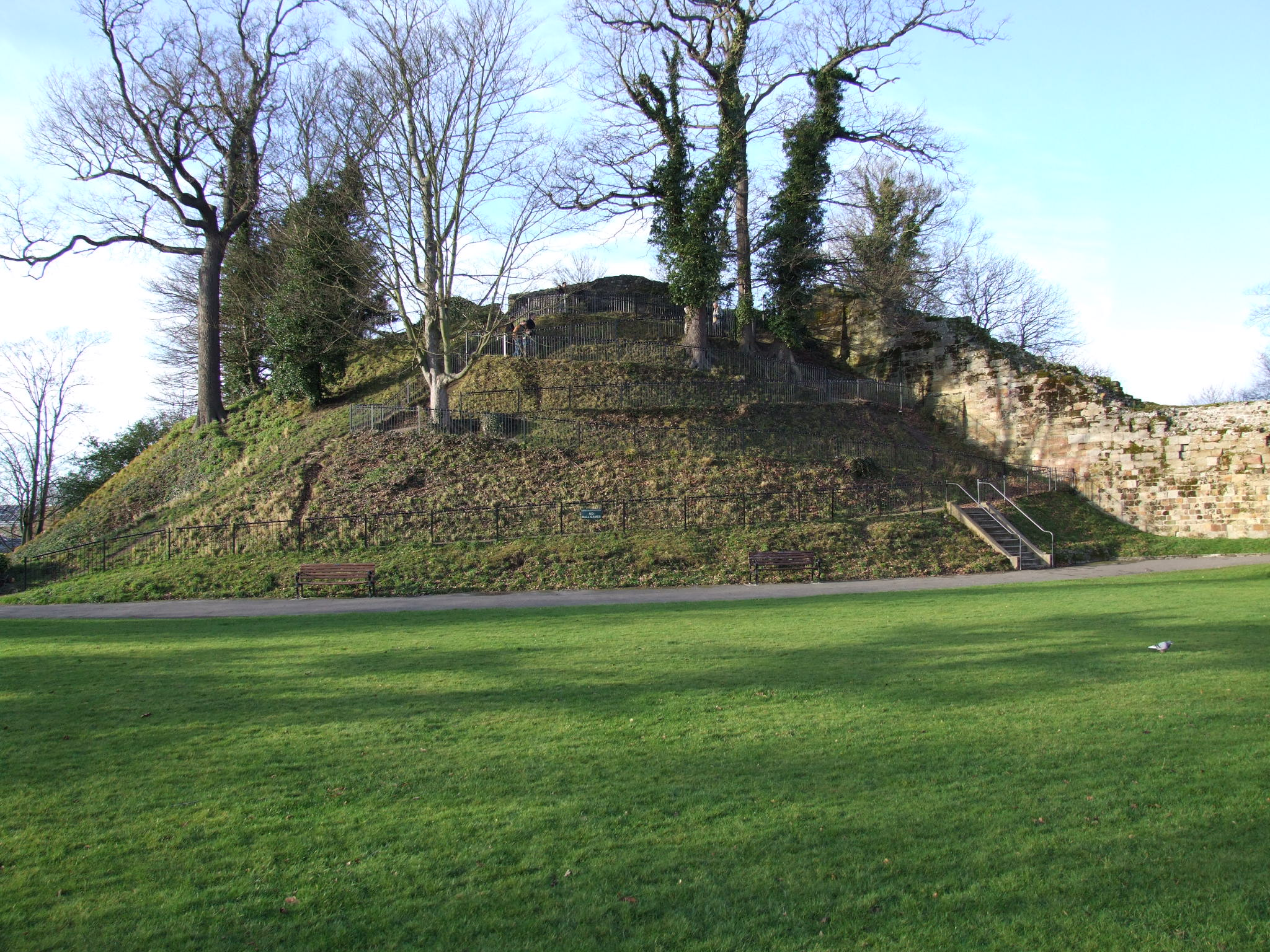 Tonbridge in Kent lies on the River Medway. The main channel passes under Big Bridge.Three channels have been culverted, the Botany Stream remains. Tonbridge is protected by Tonbridge Castle The motte